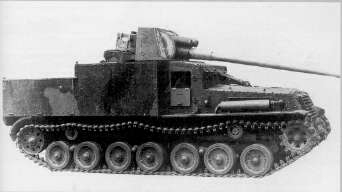 Japanese Type 5 Na-To tank destroyer